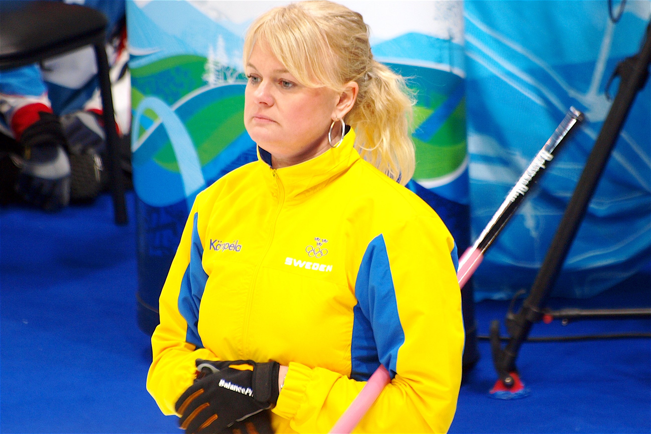 Anette Norberg was the skip of the Swedish women's curling team at the Vancouver Olympics in 2010. The Swedish women's curling team has twice won the Olympic gold medal at Turin, Italy in 2006 and at Vancouver, Canada in 2010 under her experienced leadership. This photograph was taken on February 23, 2010 at the Vancouver Olympic community centre and curling rink at Hillcrest Park, in the city of Vancouver, Canada, during the 2010 Winter Olympic Games.